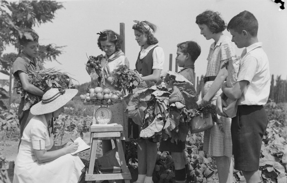 Gardeners apprentices Montreal Botanical Garden pose the fruit of their crops on a scale. Miss Marcoux notes the results in a notebook.